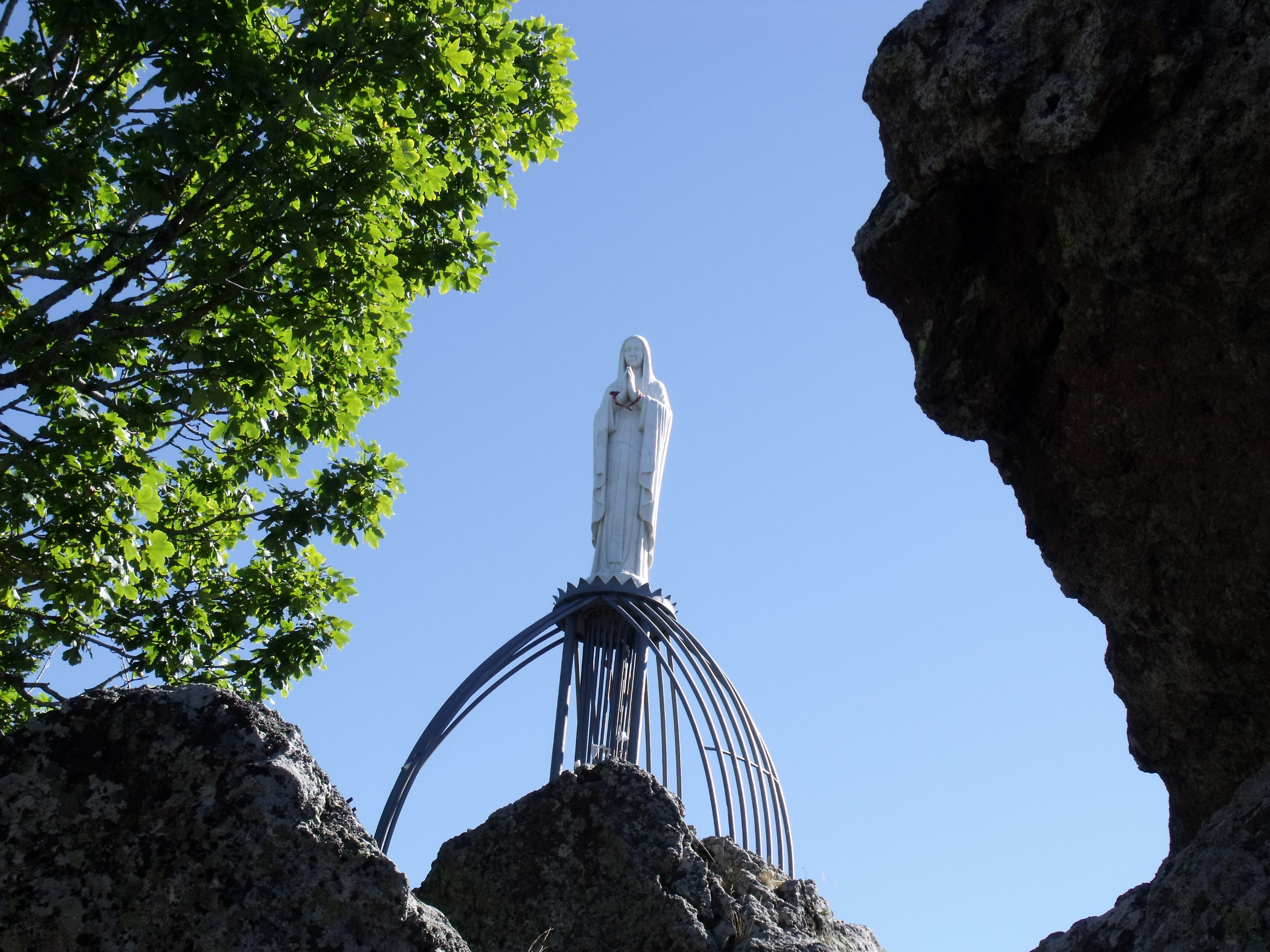 Statue Madonna degli Scouts on Monte Amiata, Provinces of Siena and Grosseto, Tuscany, Italy